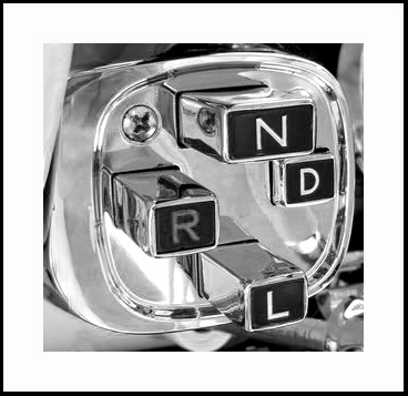 In 1956, Chrysler had added push-button 2-speed "Powerflite" transmission selector to its car models. Late in 1956, Chrysler had also added a push-button 3-speed "Torqueflite" transmission selector to its car models.